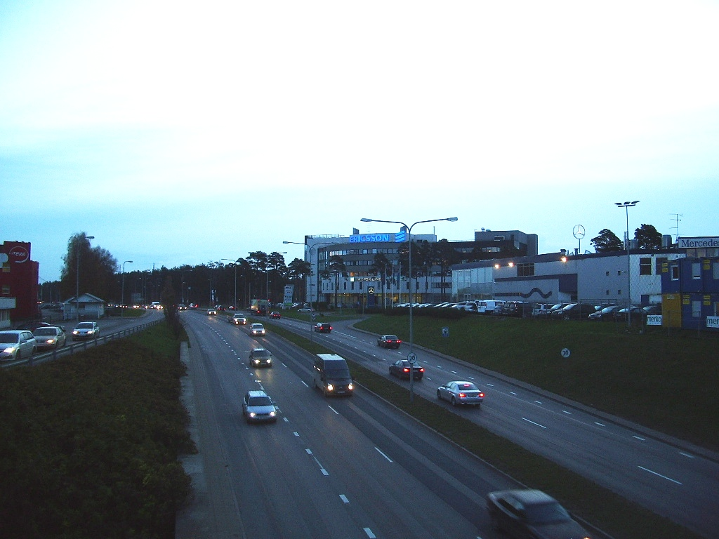 A view in Tallinn